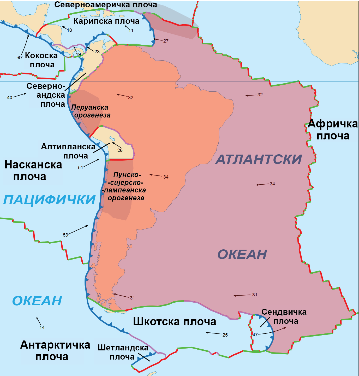 A map of the South American plate